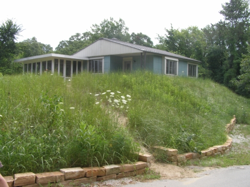 Lustron House located on Kemil Rd, south of the Beach. Moved to Drake Ave by the Solomon Enclave, Beverly Shores, Indiana